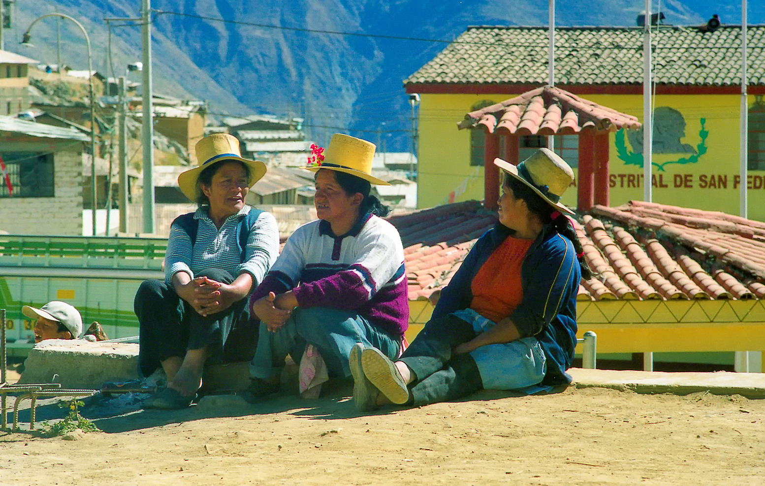 San Pedro de Casta